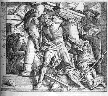 Obtained from epi404.htm, cites it as in An Etching of Samson, from an 1882 German Bible